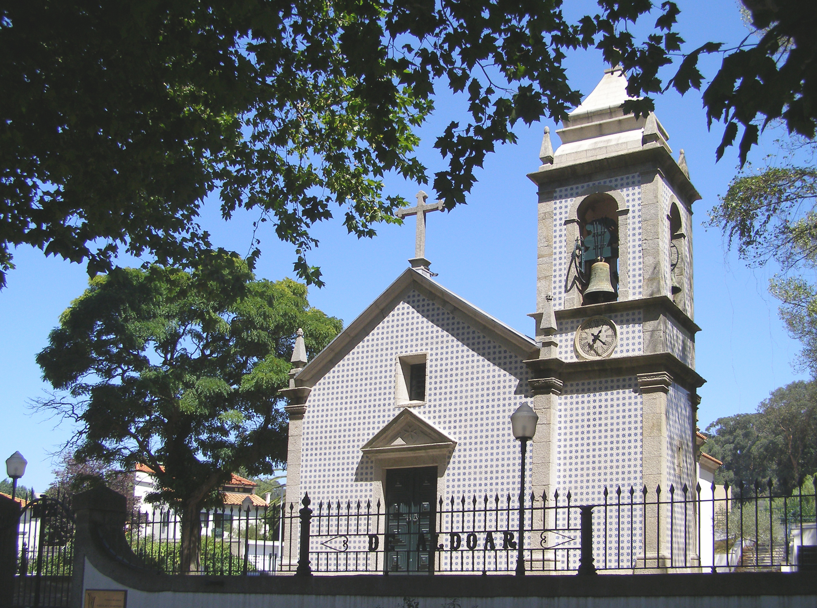 (Roman Catholic) Church of St. Martin, parish of Aldoar, Oporto, Portugal.